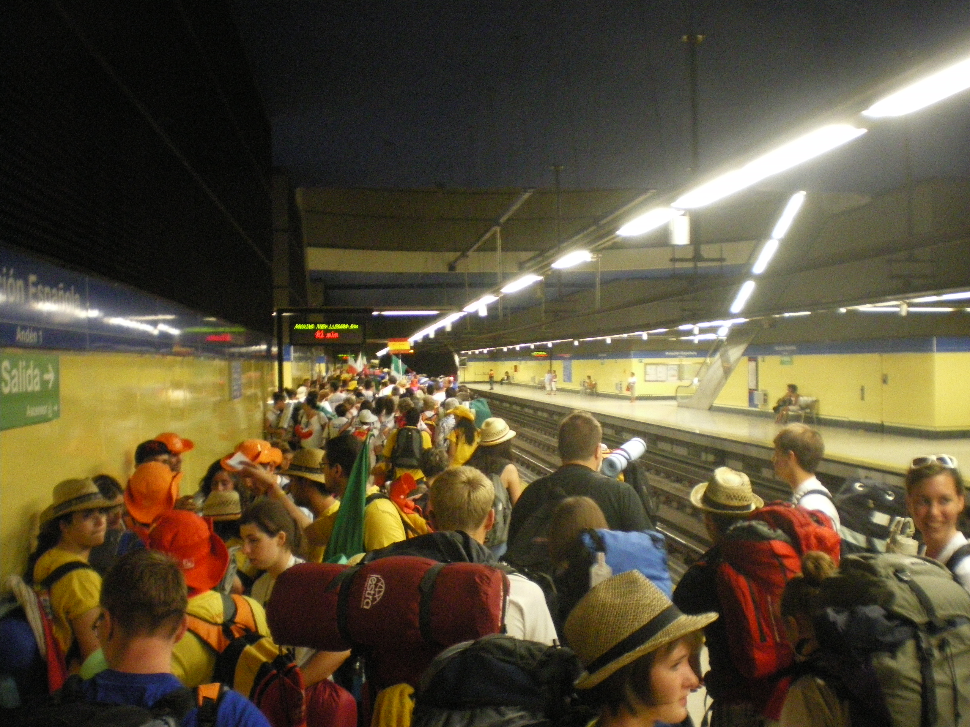 platforms of station with a crowd of participant of WYD